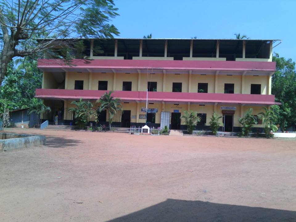 The school ST MARYS UPS KAROOR is located in the area KARUR-08 of MALA. ST MARYS UPS KAROOR is in the THRISSUR district of KERALA state. pincode is 680697. ST MARYS UPS KAROOR MALA was establised in the year 1924. The management of ST MARYS UPS KAROOR is Local Body. ST MARYS UPS KAROOR is a P. with U.Primary school. The coeducation status of ST MARYS UPS KAROOR is Co-Educational. The residential status of ST MARYS UPS KAROOR is No. and the residential type of ST MARYS UPS KAROOR is Not Applicable. The total number of students in ST MARYS UPS KAROOR MALA is 188. The total number of teachers in ST MARYS UPS KAROOR MALA is 9. The total number of non teaching staff in ST MARYS UPS KAROOR is 1. The medium of instruction in ST MARYS UPS KAROOR is Malayalam.